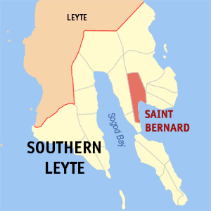 Map of Southern Leyte showing the location of Saint Bernard